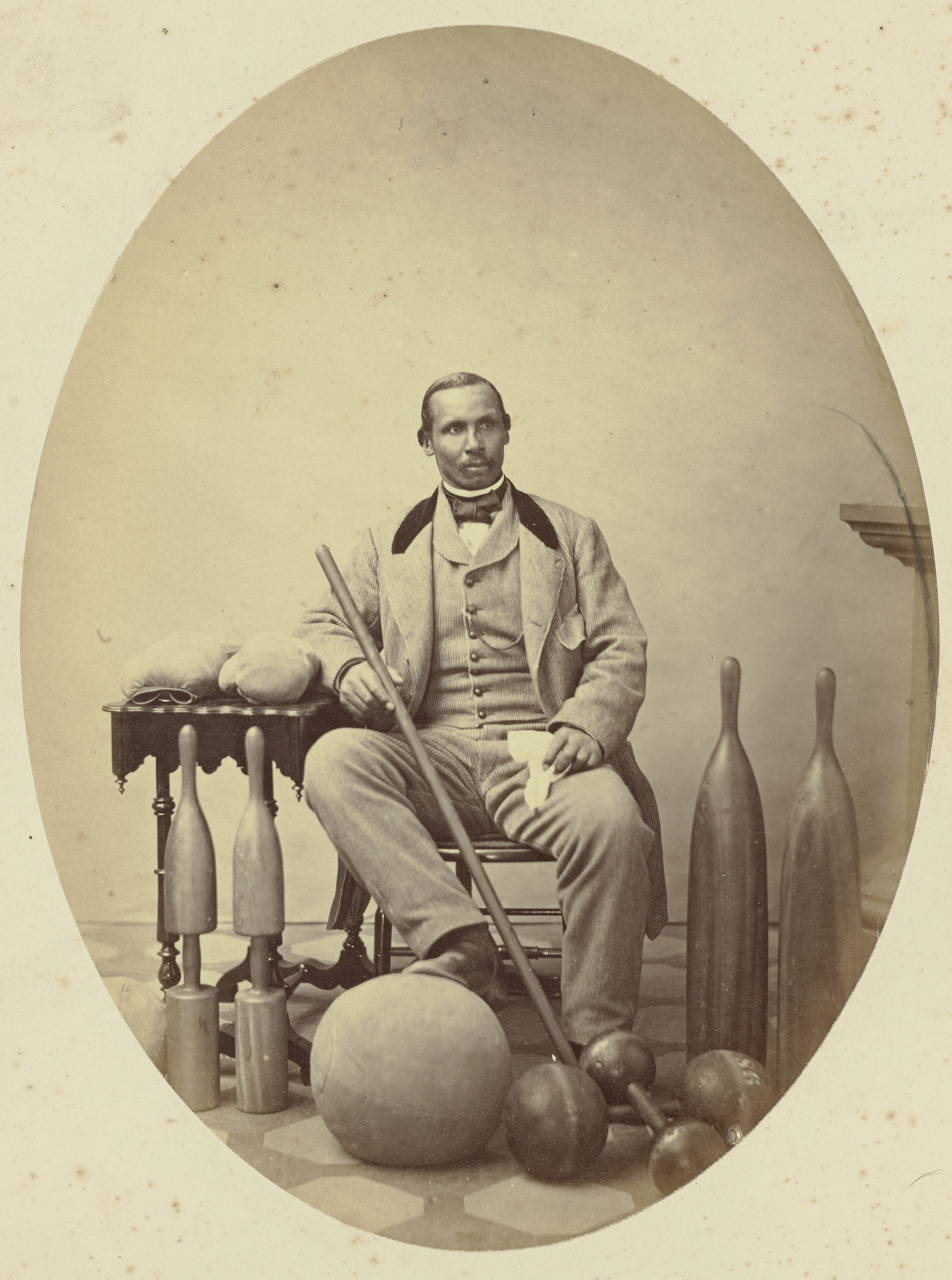 Aaron Molyneaux Hewlett; George Kendall Warren (American, 1834 - 1884); United States; negative 1859; print about 1865; Albumen silver print; 20.6 × 15.6 cm (8 1/8 × 6 1/8 in.); 2017.16 )note: print made in 1866 negative may date to 1859